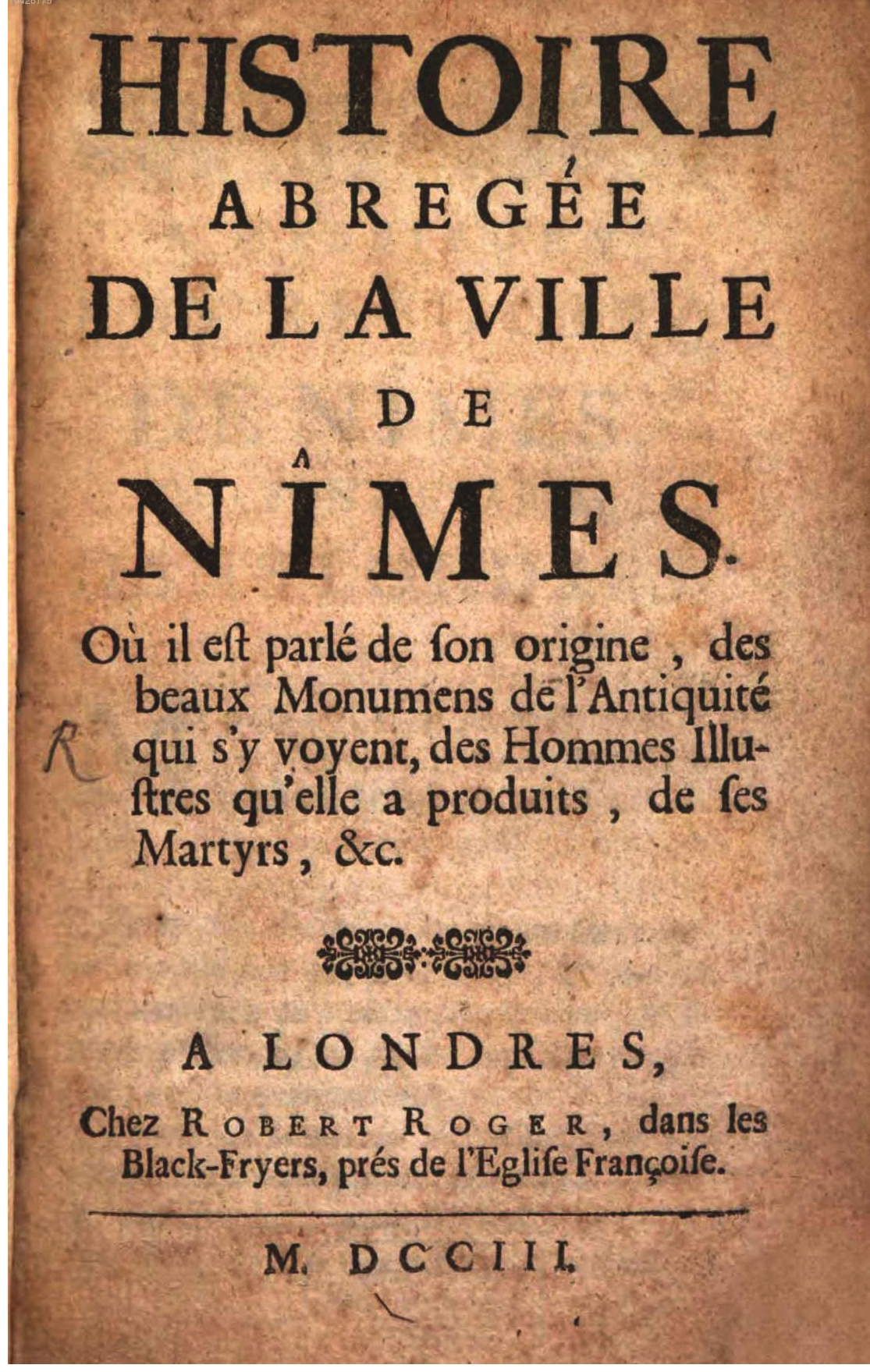 If you can, help make this description accessible to all by translating it into other languages. – Thanks!